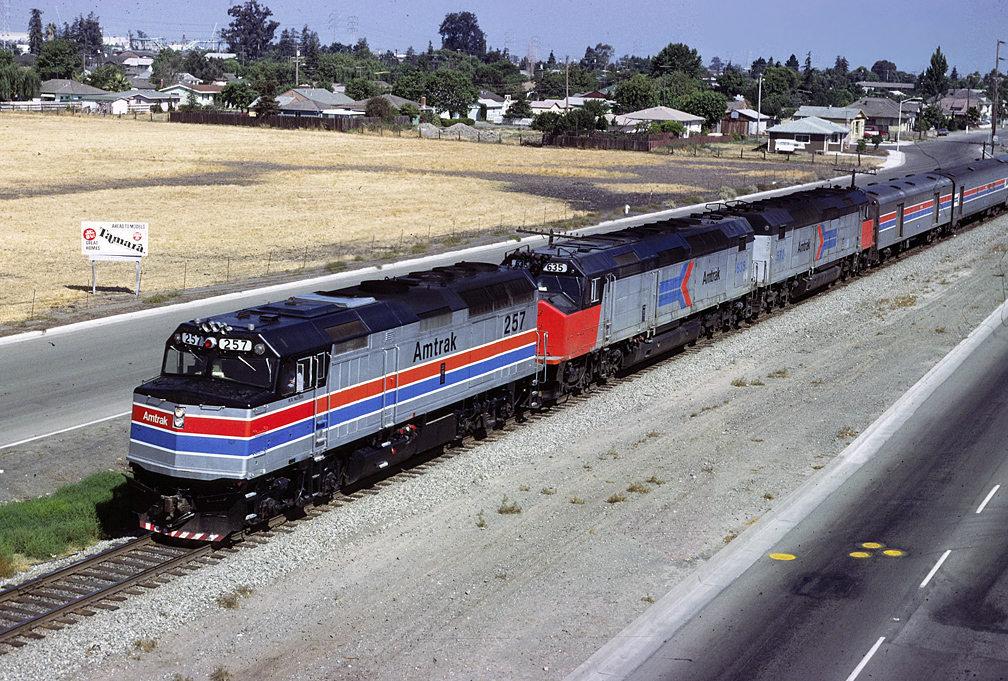 A new F40 leading two SDP40Fs with the Coast Starlight. The F40 is painted in the new Phase II livery while the SDP40Fs are in Phase I.